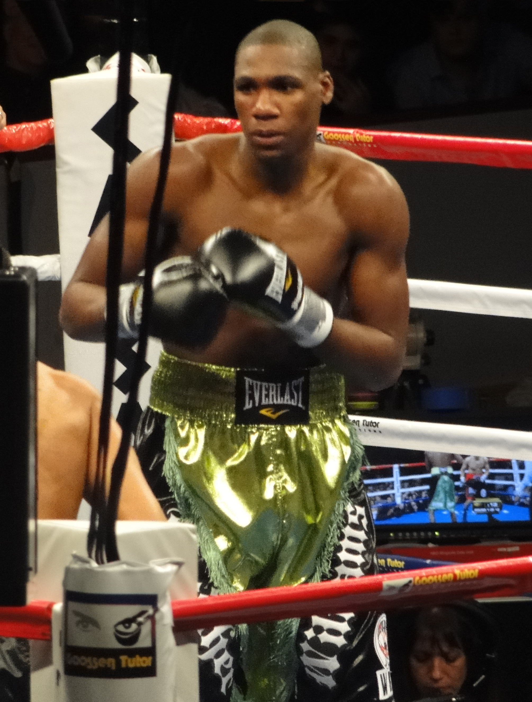 Paul Williams fighting against Sergio Gabriel Martínez at the Boardwalk Hall on November 20, 2010.